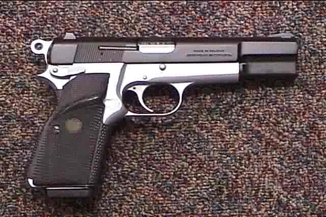 Browning Hi-Power Practical pistol